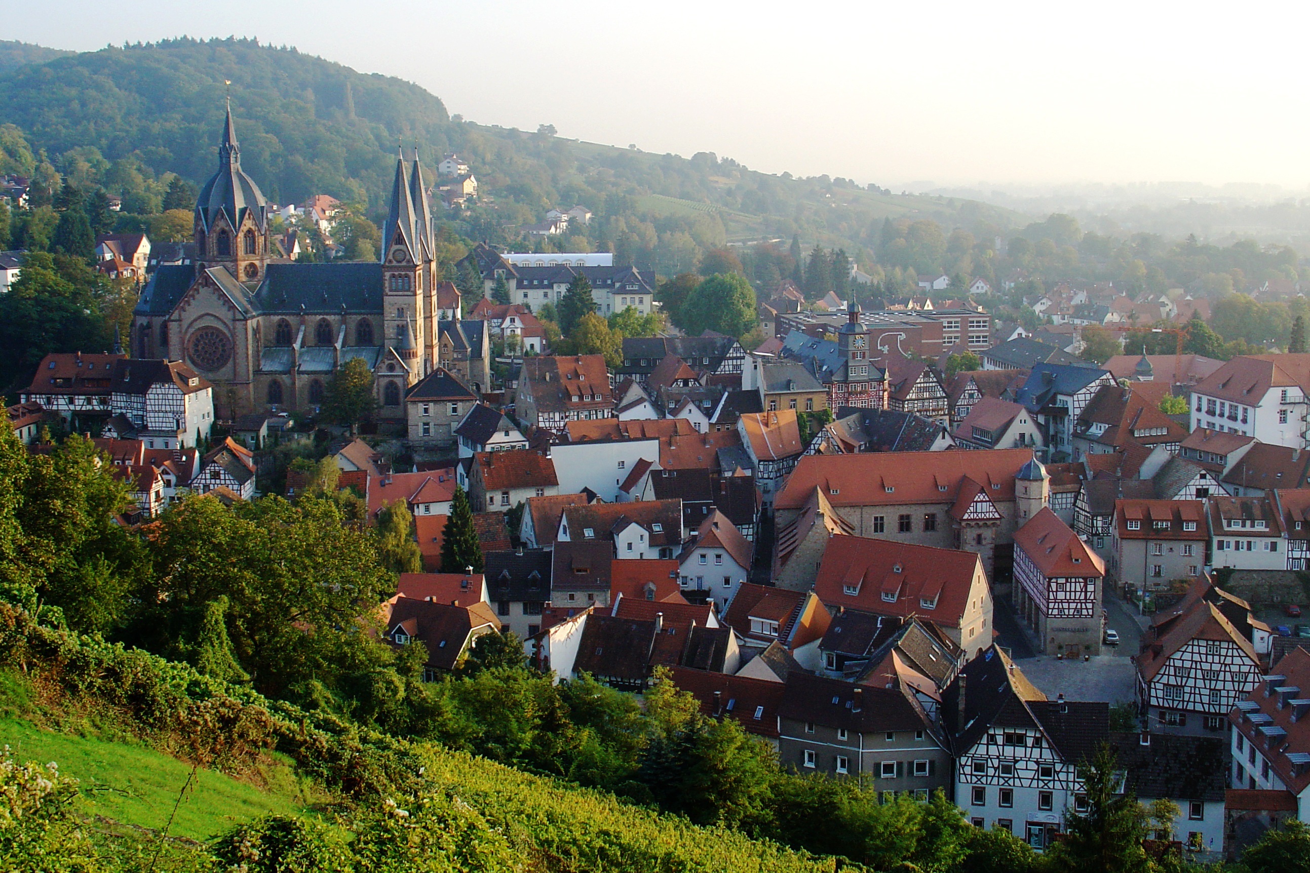 Heppenheim, Germany Photographer: Marco Mayer Picture taken: October 13th, 2005